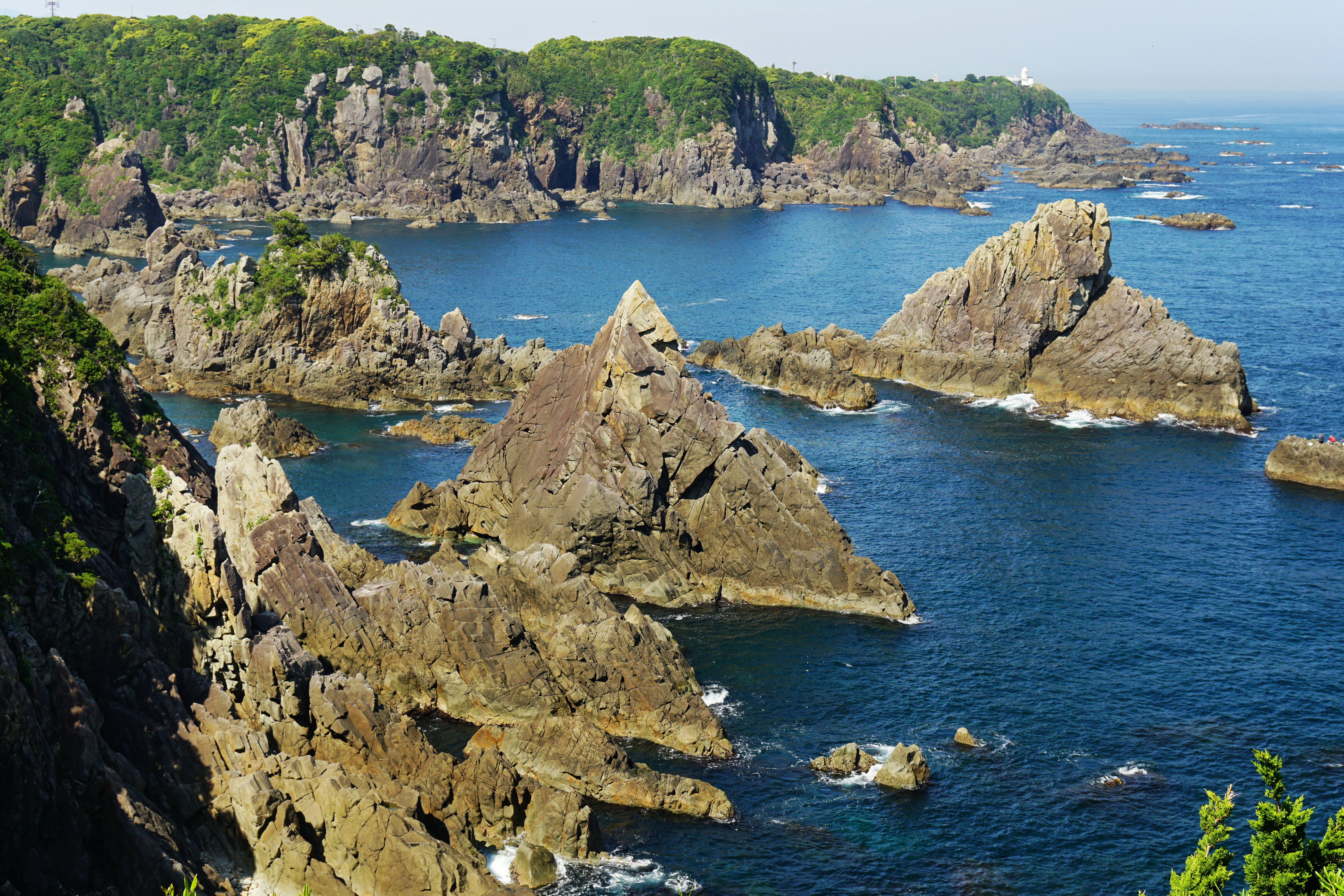 Umikongo in Kushimoto, Wakayama prefecture, Japan